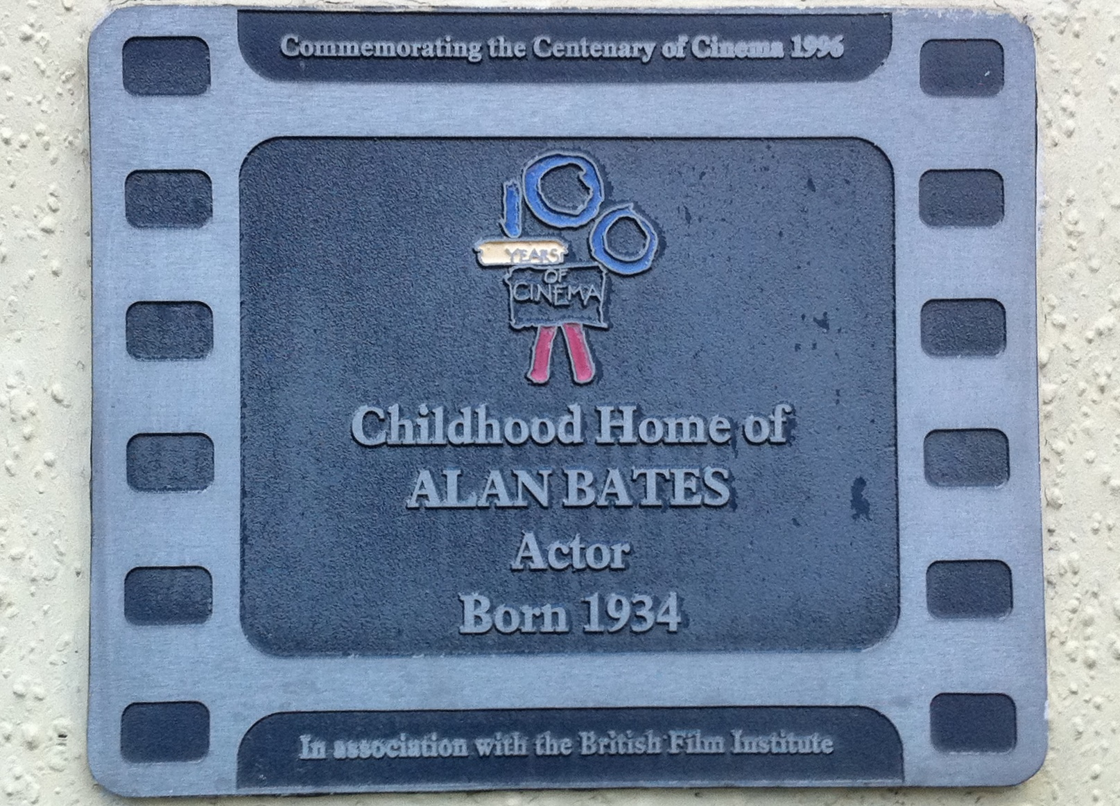 Blue Plaque on the Childhood Home of Alan Bates, Derwent Ave, Allestree, Derby, UK